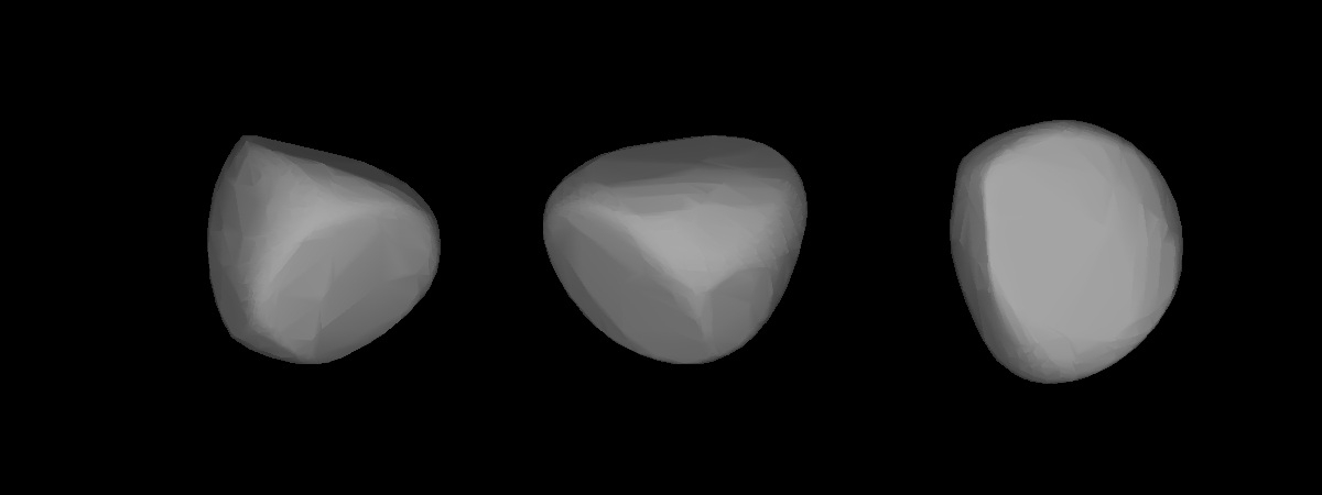 A three-dimensional model of 776 Berbericia that was computed using light curve inversion techniques.